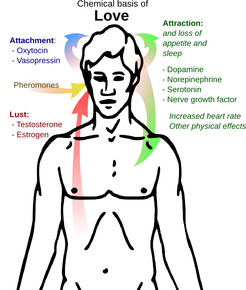 Simplistic overview of chemicals implicated in love. Sources are found in main article: Wikipedia:Love. Model: Mikael Häggström. To discuss image, please see Template_talk:Häggström diagrams